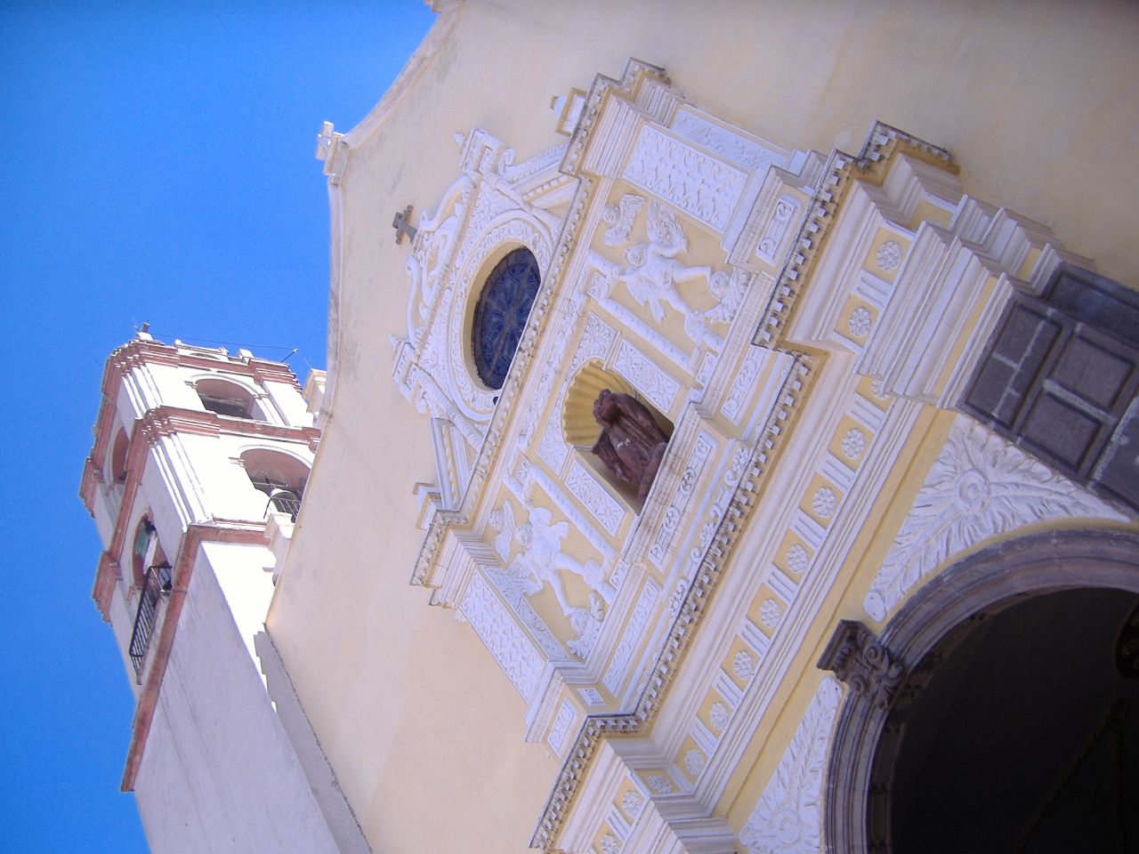 Main church, Texcoco, Mexico